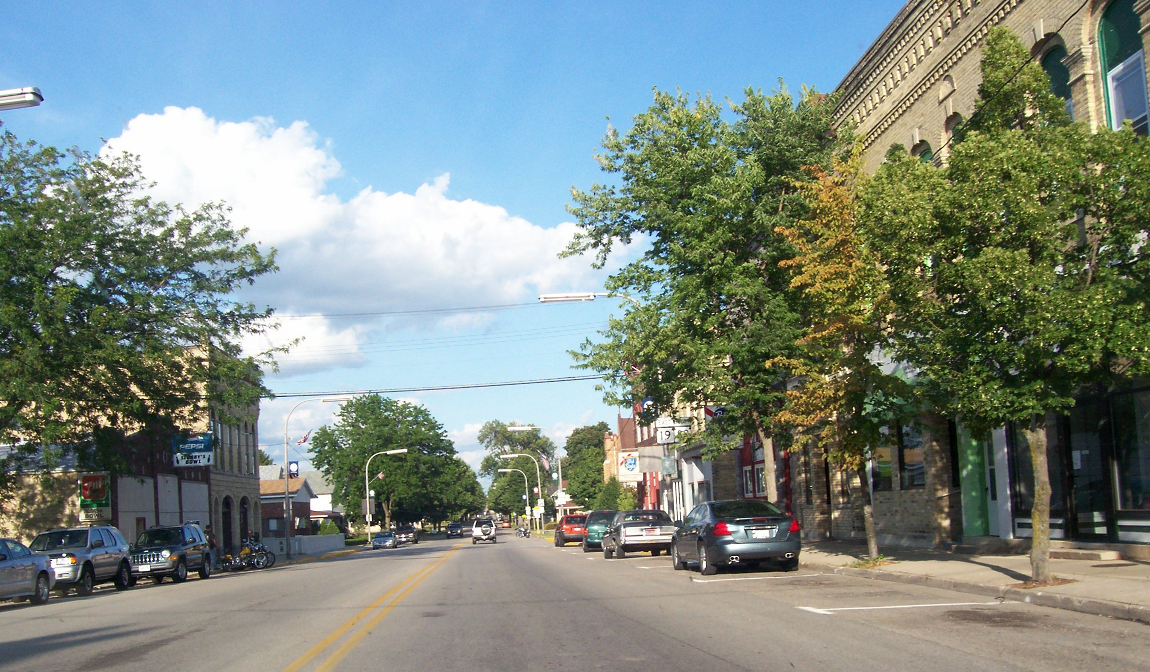 Looking east at downtown Waterloo, Wisconsin in Jefferson County, Wisconsin, USA. Taken on Wisconsin Highway 89 / Wisconsin Highway 19.